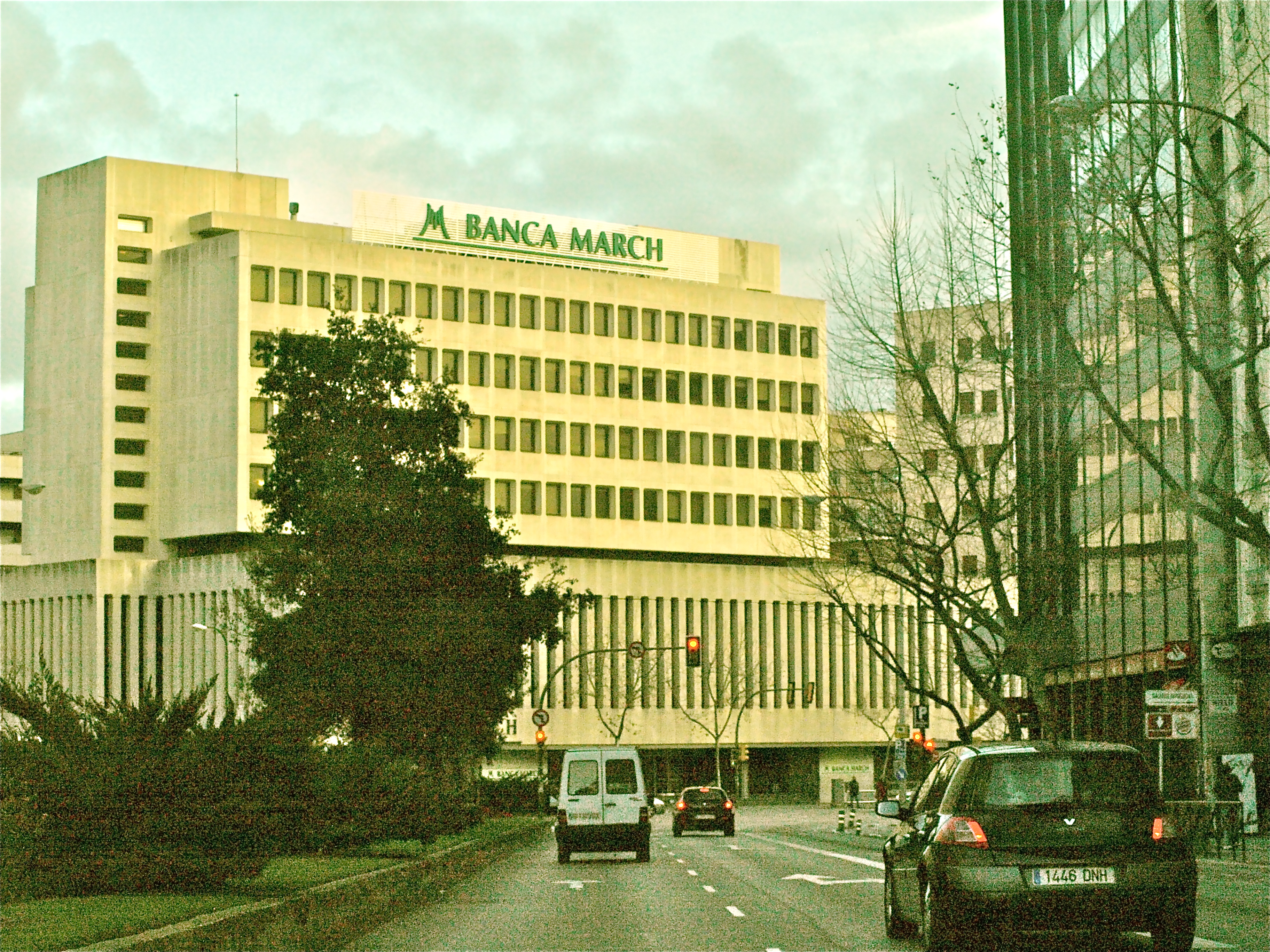 Banca March bank headquarters Place Lloc/Place:Avingudes, Palma